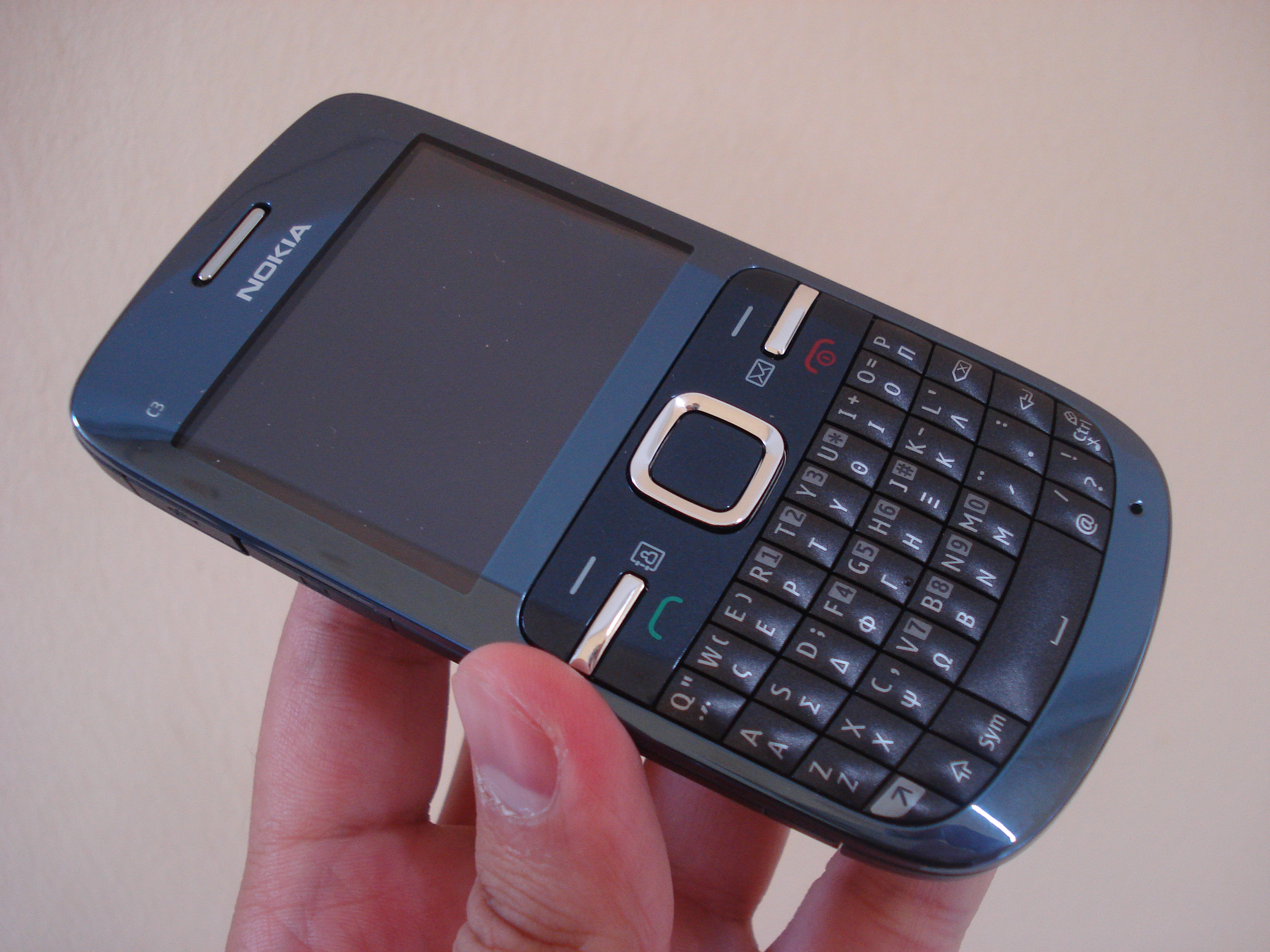 Nokia C3-00 hands on.